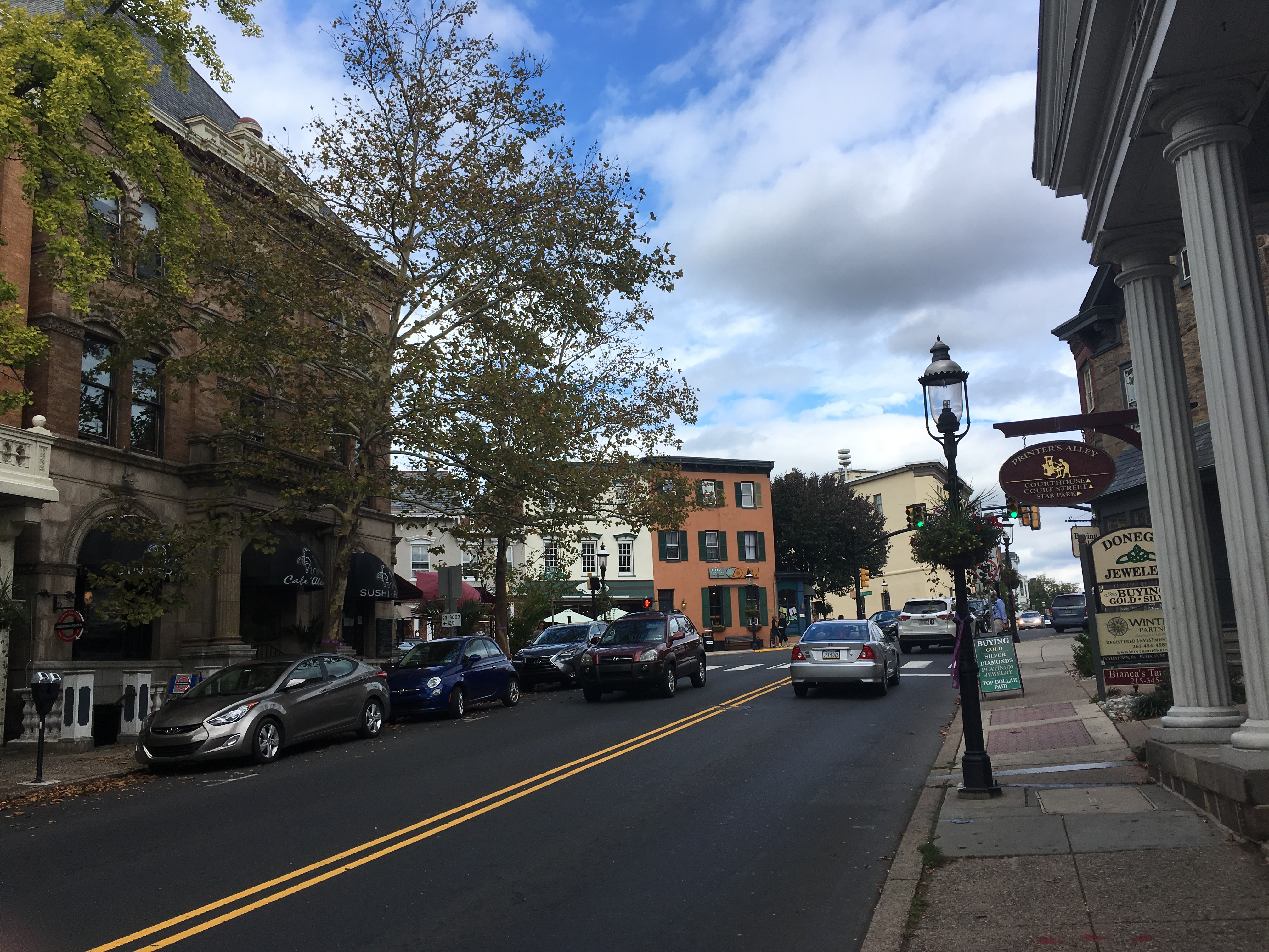 Northbound Main Street approaching the intersection with Court Street in Doylestown, Pennsylvania